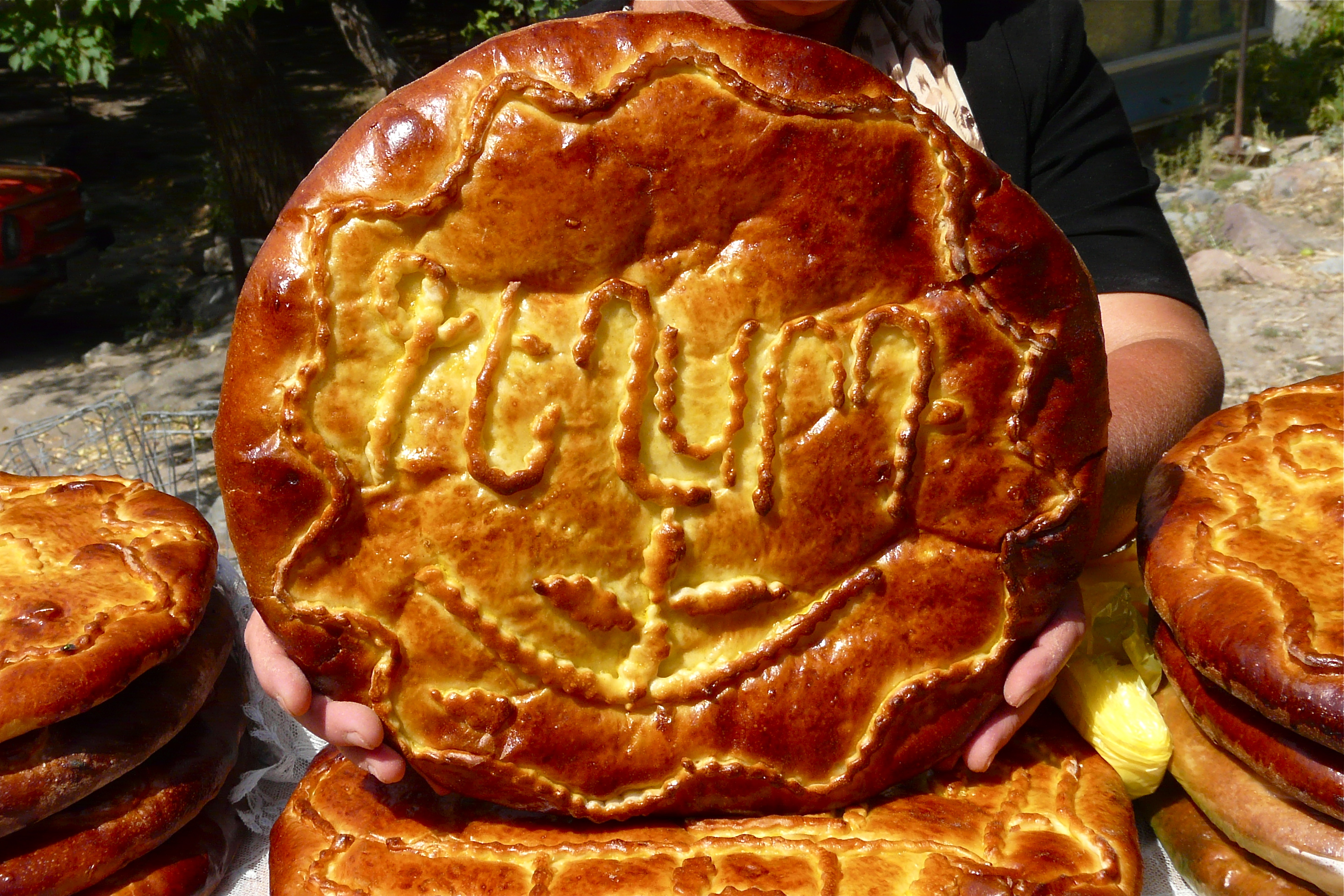 Armenian Gata pastry stand outside of Geghard monastery